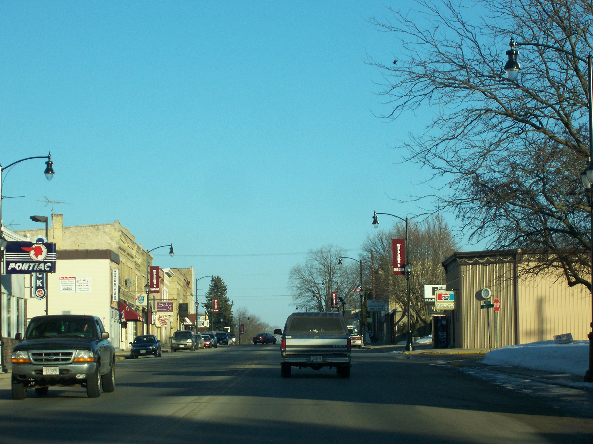 Looking east at downtown Fox Lake, Wisconsin in Dodge County, Wisconsin.